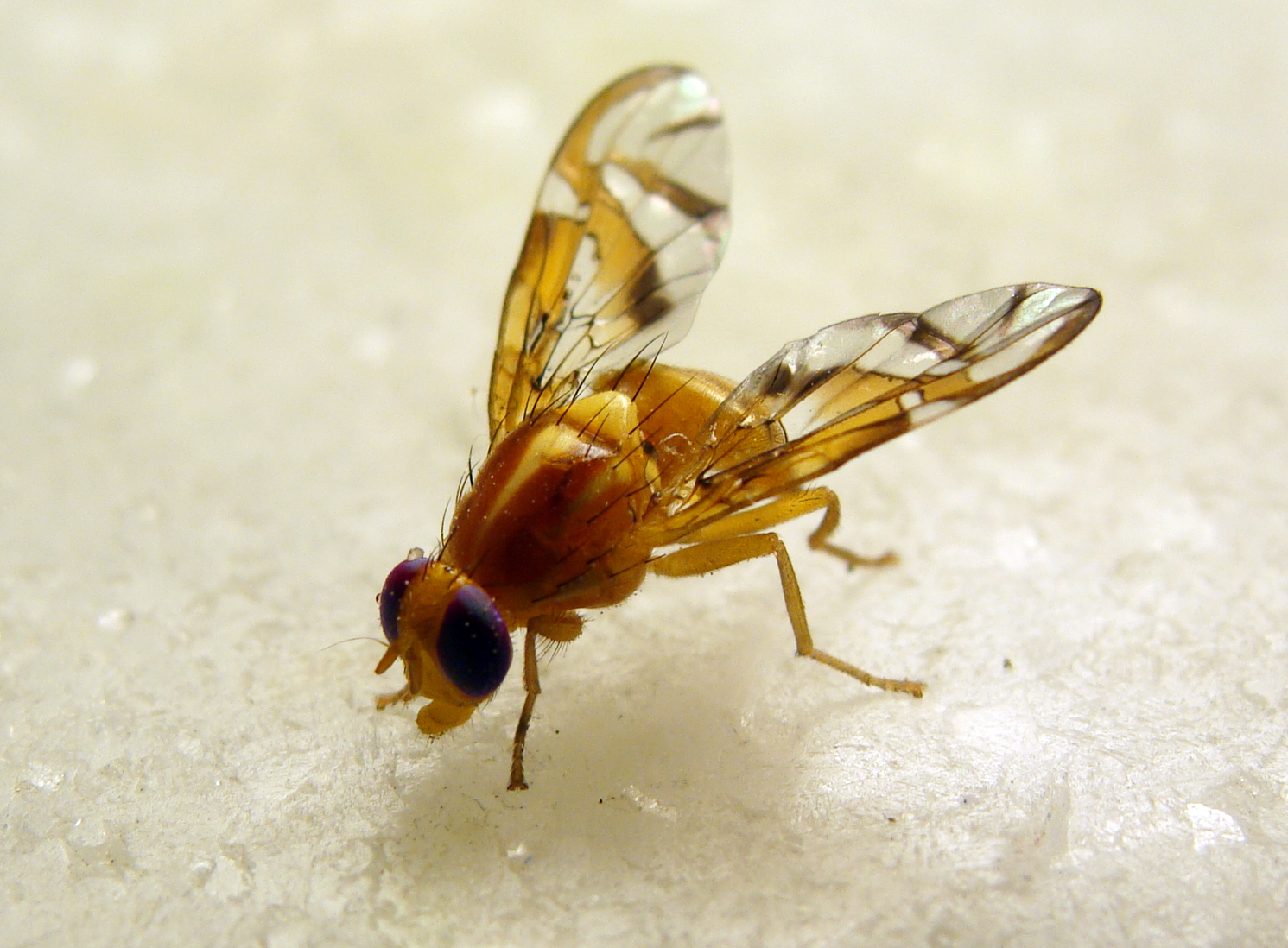 Photo of a Anastrepha fraterculus, or fruit-fly.